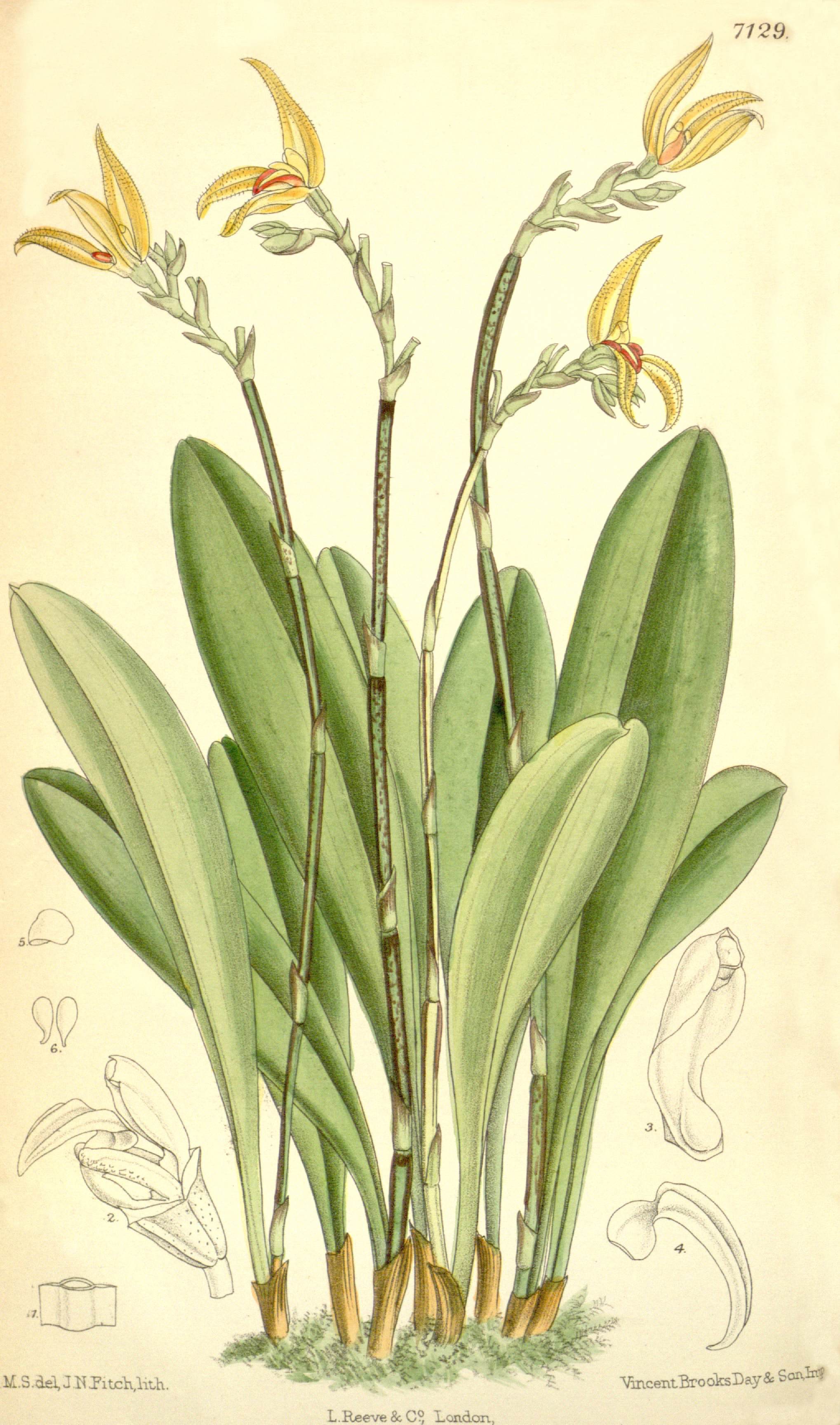 Illustration of Specklinia endotrachys (as syn. Pleurothallis platyrachis)